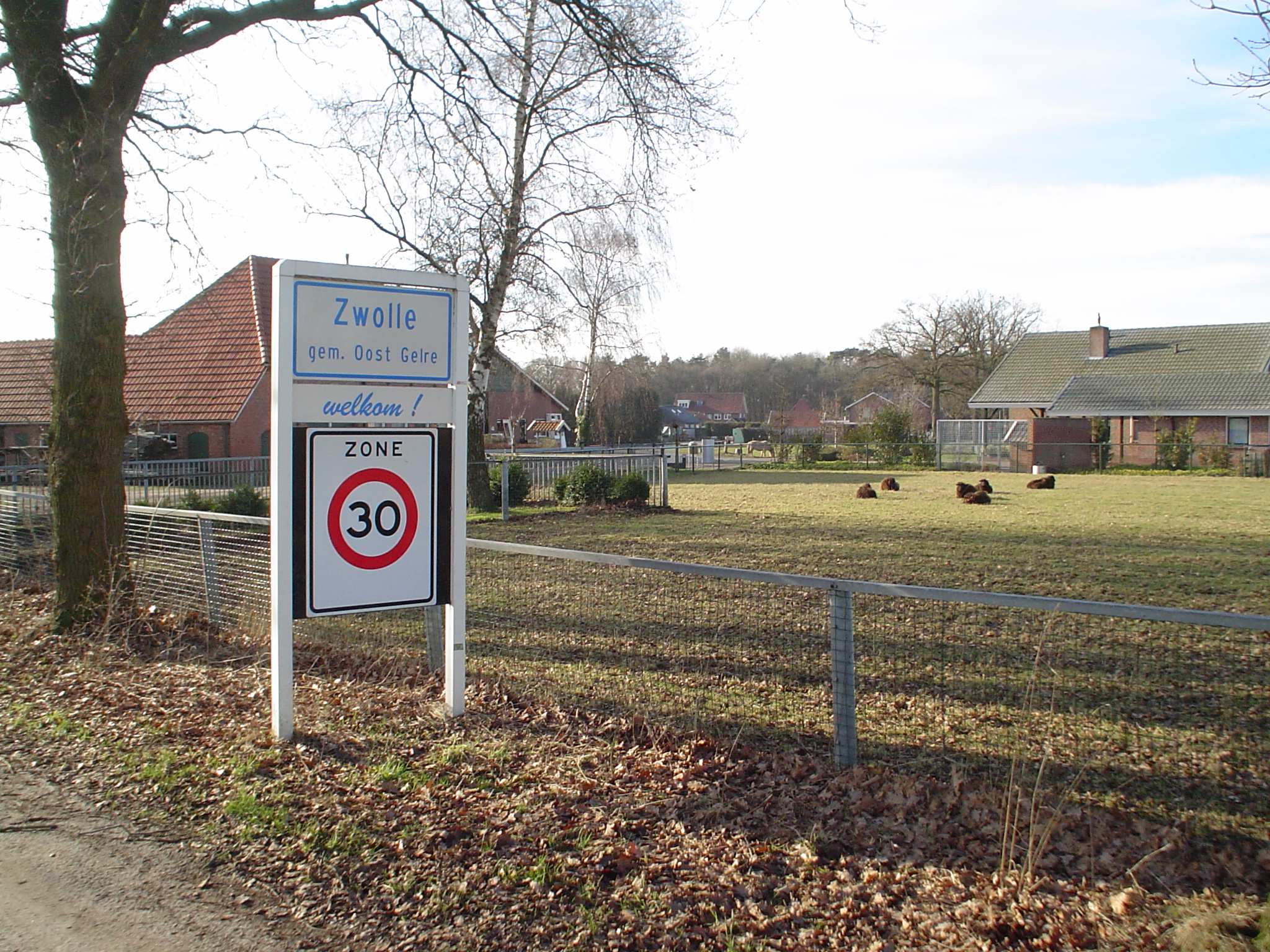 View from the street "Oude Klaverdijk" on the hamlet of Zwolle, near Groenlo, Netherlands.